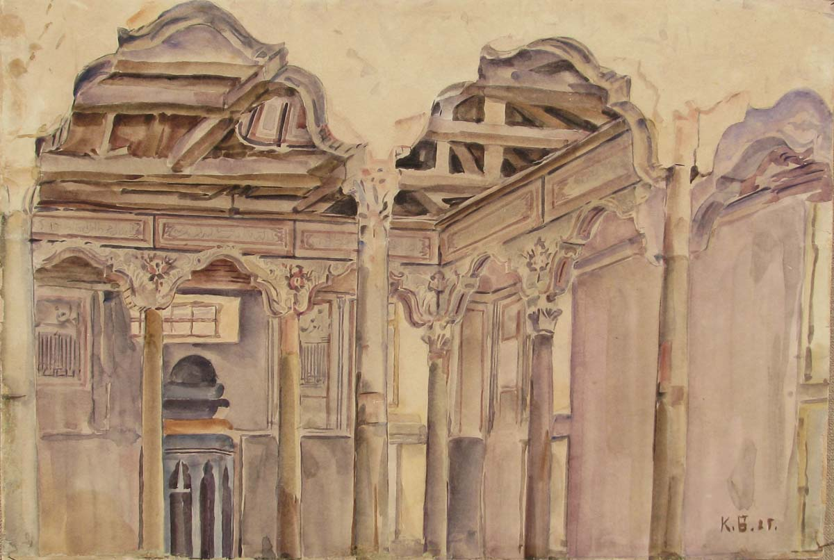 Богаевский К., «Внутренний вид Зеленой мечети в Бахчисарае», XX в.